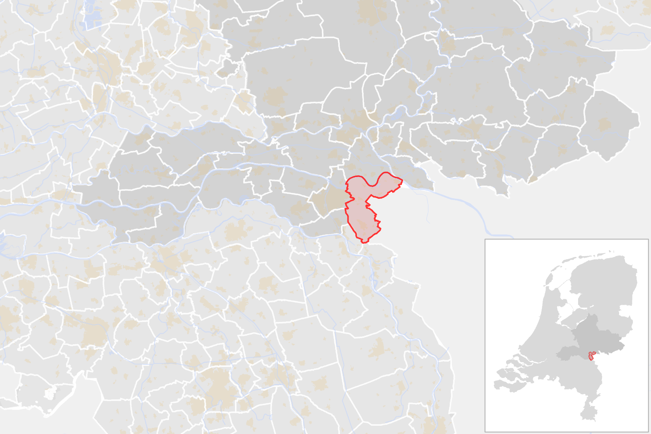 Locator map showing municipality boundary of one of the 390 Dutch municipalities (as of 2016)